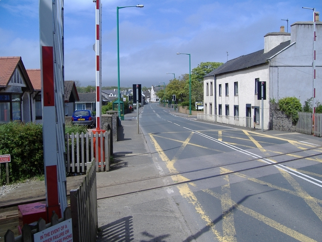 Station road, Ballasalla, Isle of Man. Level crossing for the Steam Railway in the foreground.